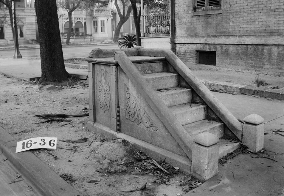 Carriage Block, Government Street, Mobile, Mobile County, Alabama, United States.